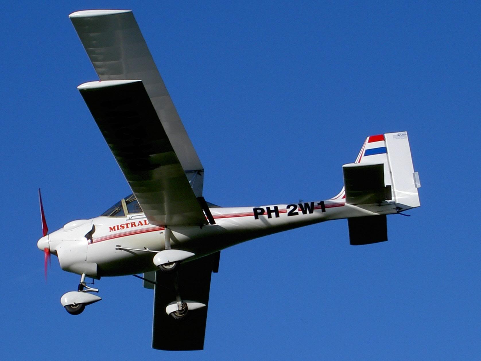 Photographed at Teuge International Airport.